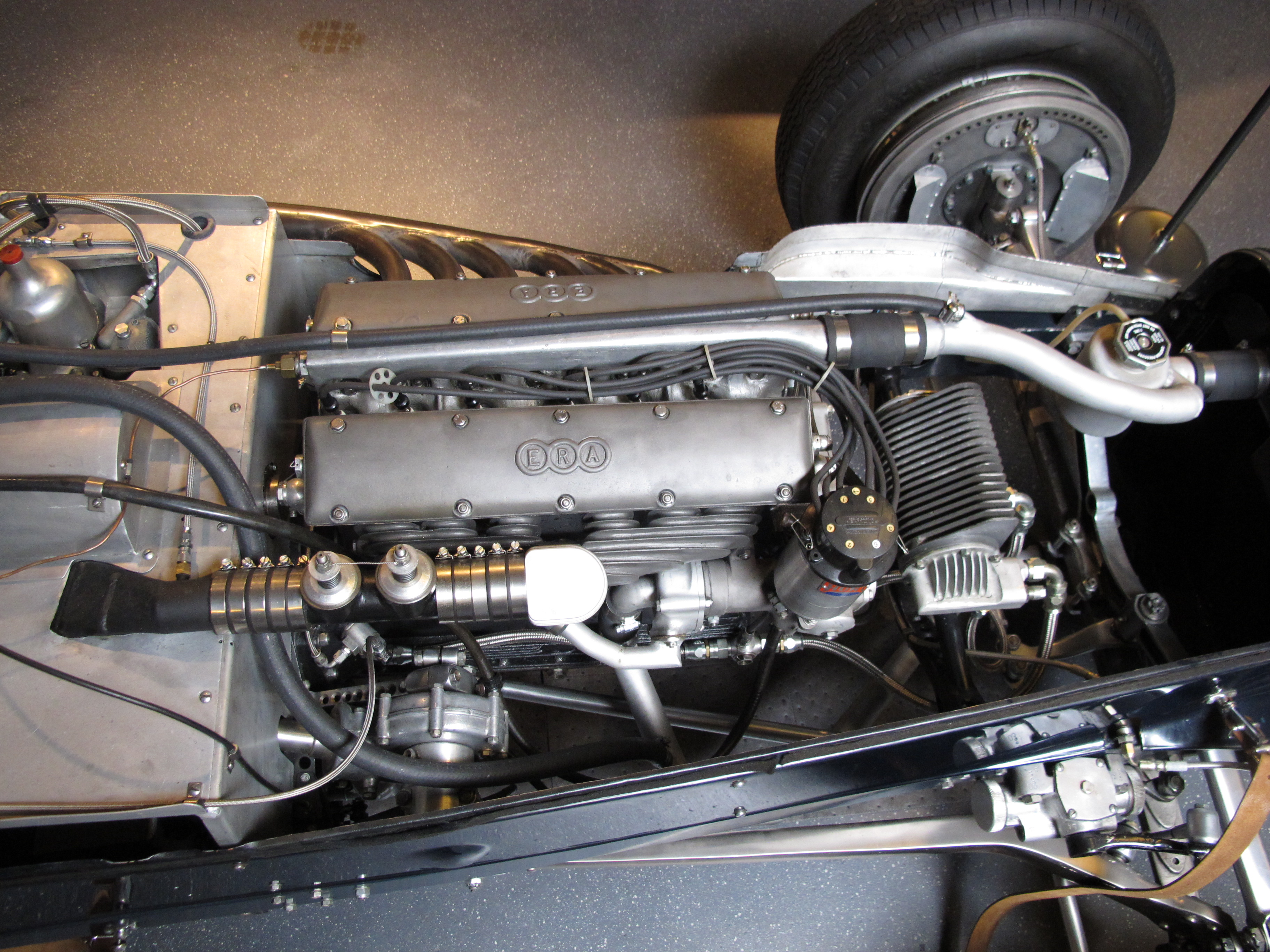 A six cylinder supercharged ERA racing engine from Prince Bira's racing car (exhibited at the Peter Mullin Museum)